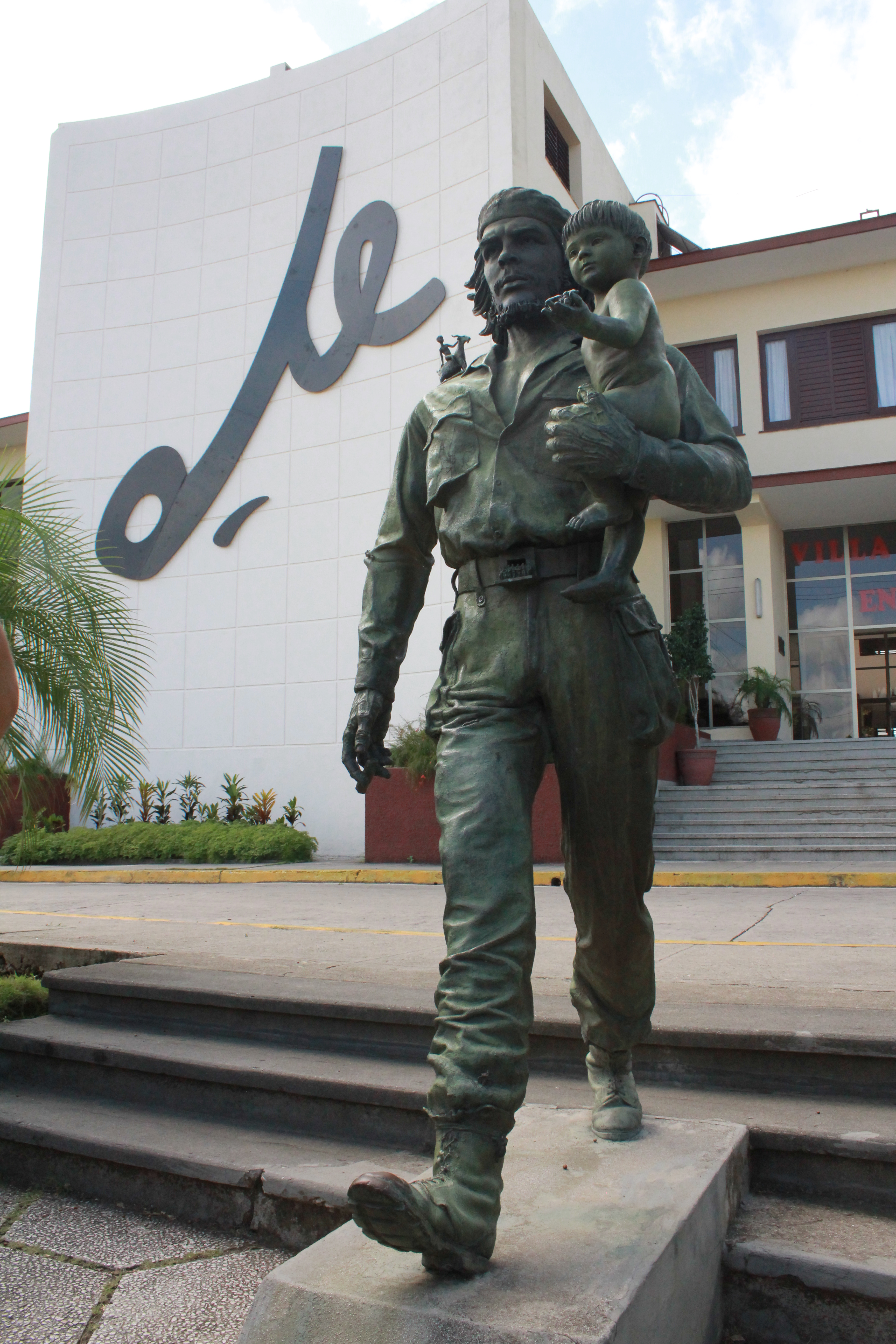 Che Guevara statue, Santa Clara, Cuba; behind his signature